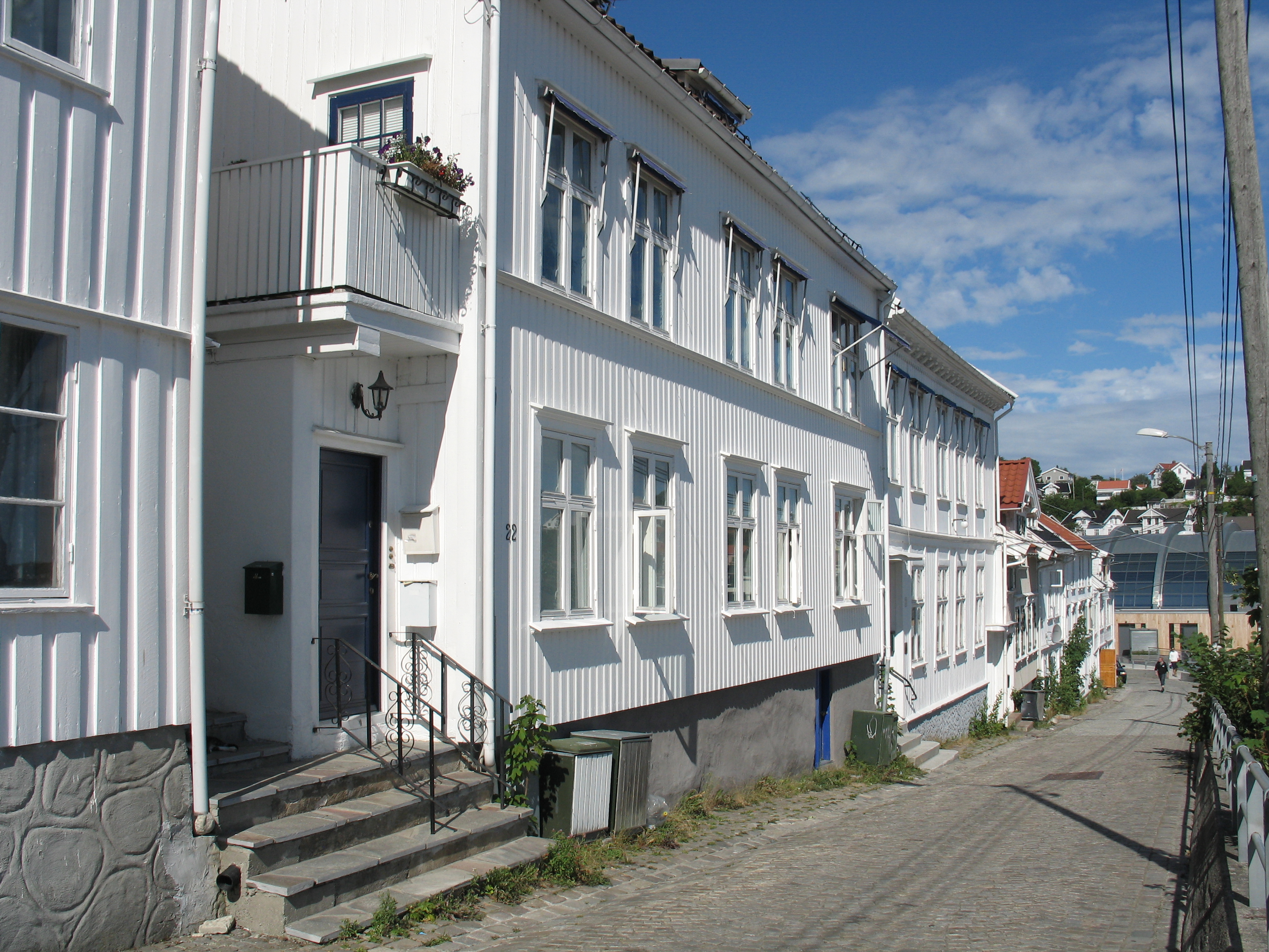 Road and buildings Strømsbuveien in Arendal